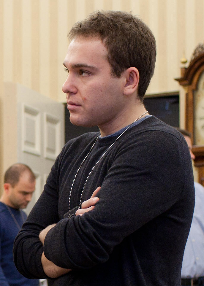 White House Speechwriting Associate Director Jonathan Lovett in the Oval Office